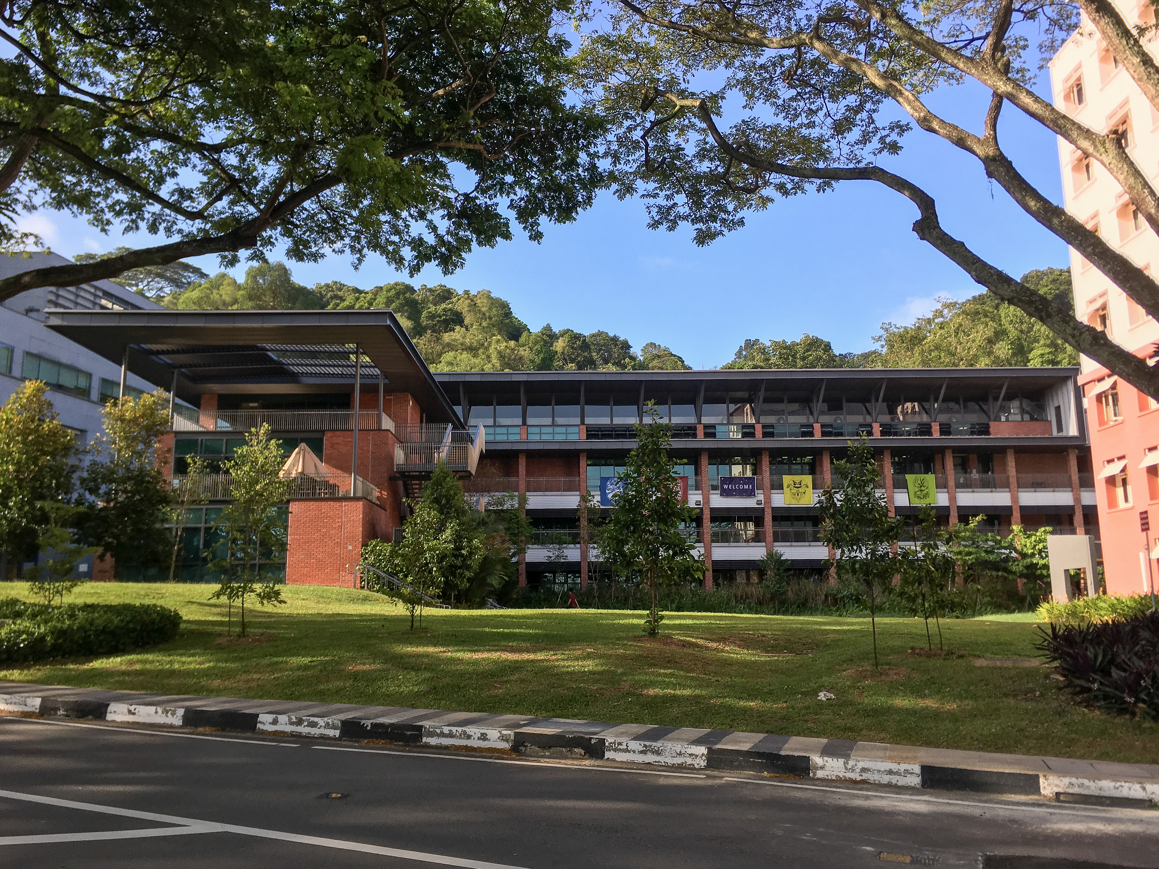 Ridge View Residential College (RVRC), a residential college at the National University of Singapore. RVRC, as of 2020, is the only residential college located outside University Town.